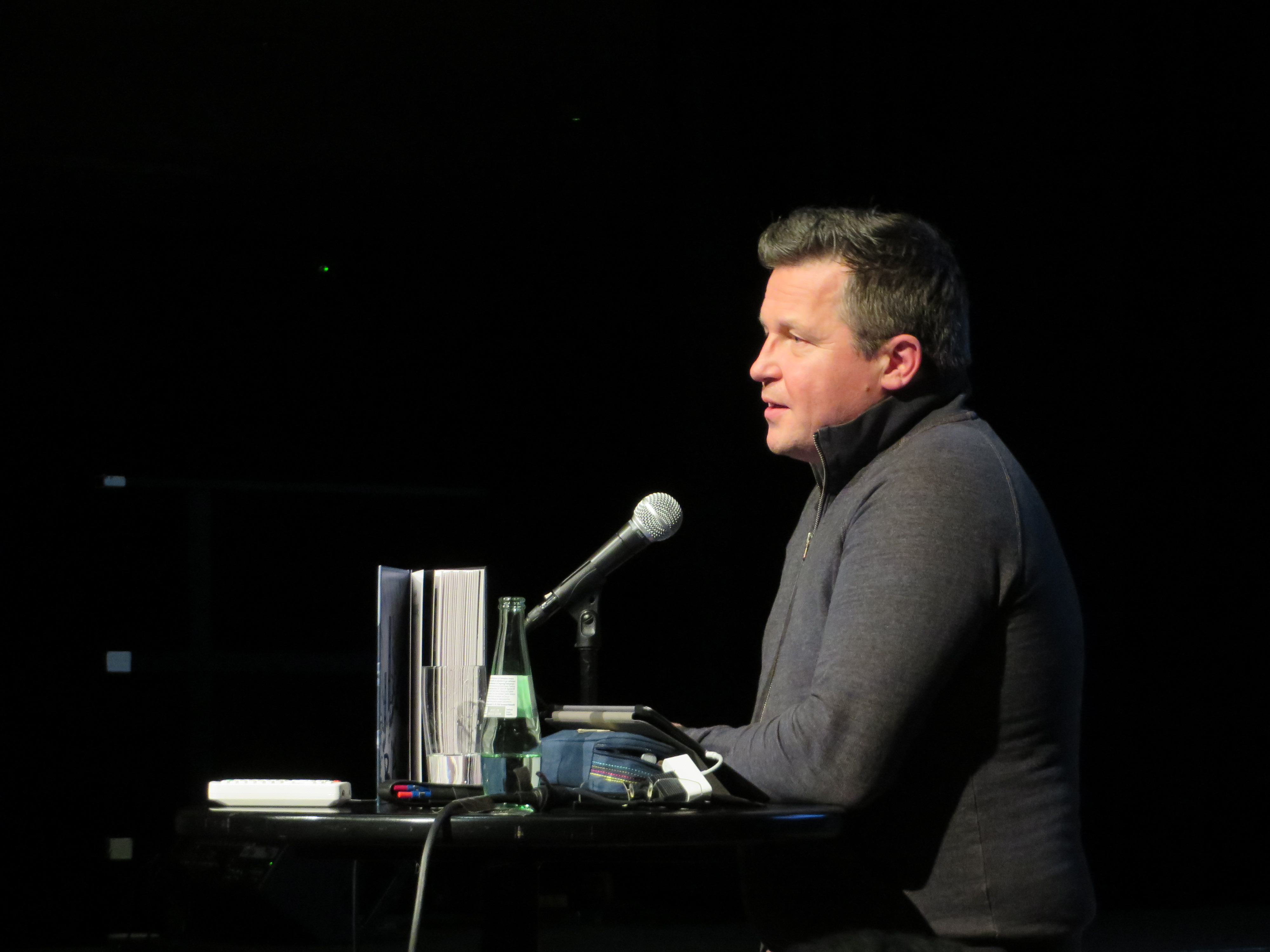 Nils Oskamp at presentation of his graphic novel Drei Steine in cultural centre Bahnhof Langendreer in Bochum, Germany